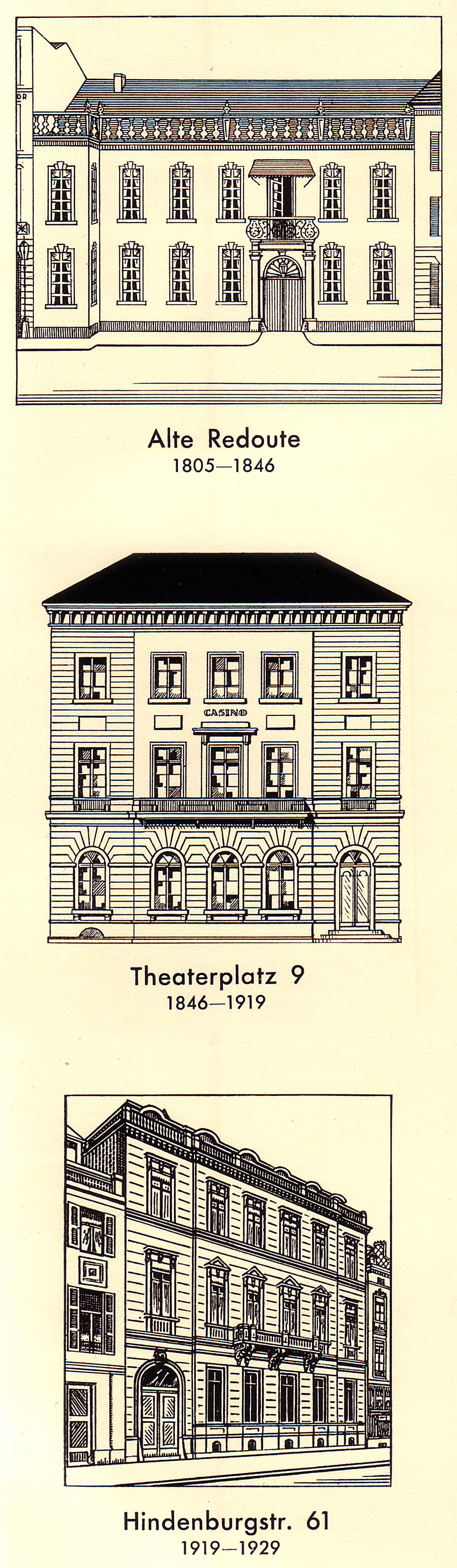 Building Gentlemen's Club Aachen (Germany) between 1805 and 1929